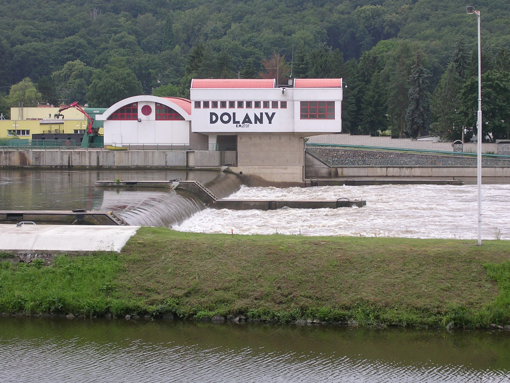 Dolany, Mělník District, Central Bohemian Region, the Czech Republic. A sluice at the Vltava River. - Google Maps - Google Earth